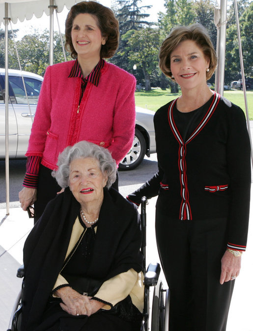 Laura Bush welcomes Lady Bird Johnson and her daughter, Lynda Johnson Robb, on their visit to the White House.